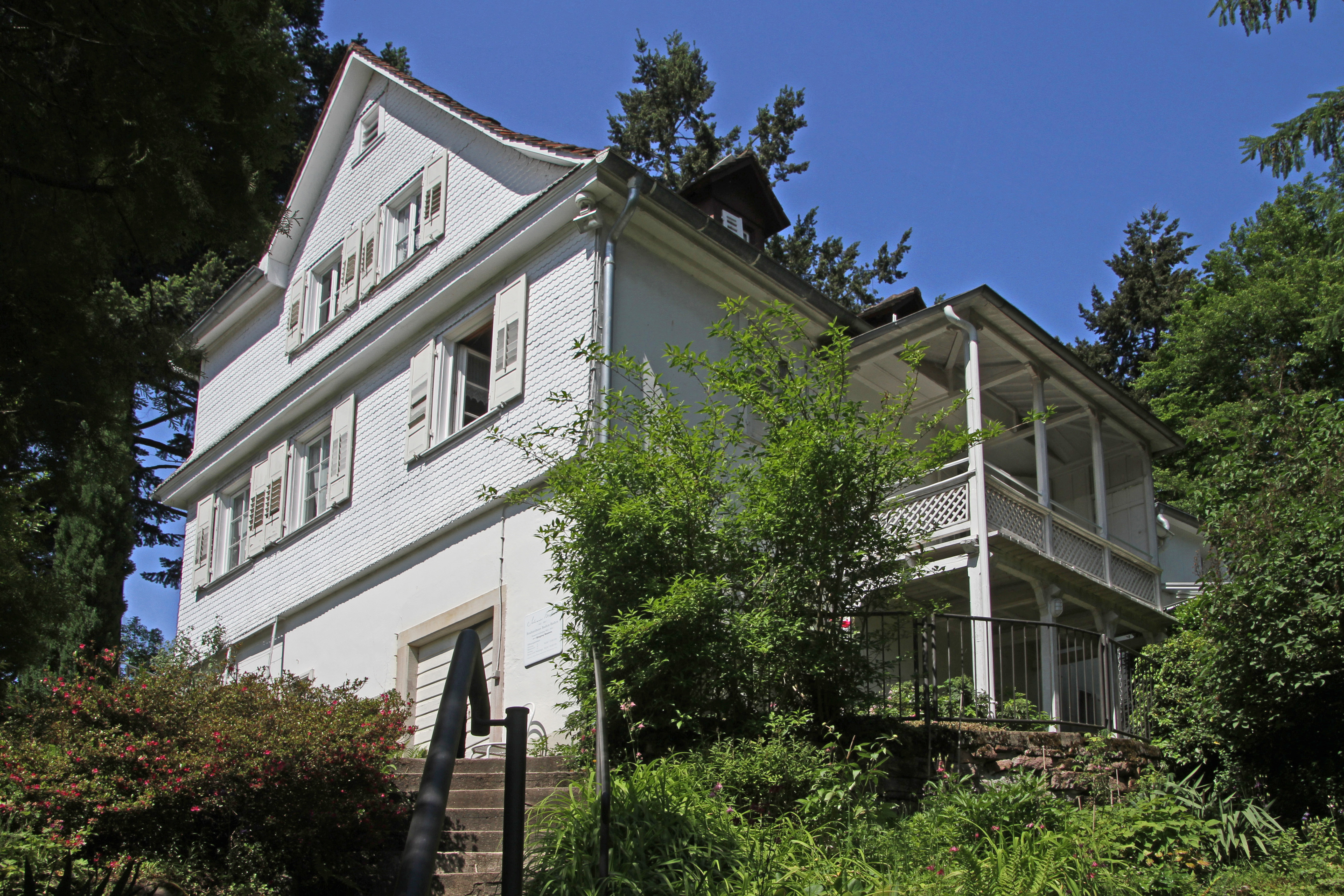 House of Brahms in Baden-Baden